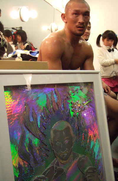 Holographic collage modeled on contemporary art fighter ”Kiichi Strasser"